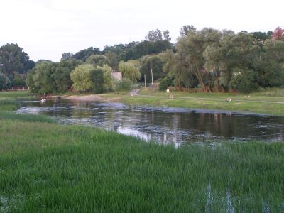 Town beach in Goniądz, Poland seen from the other side of the Biebrza river